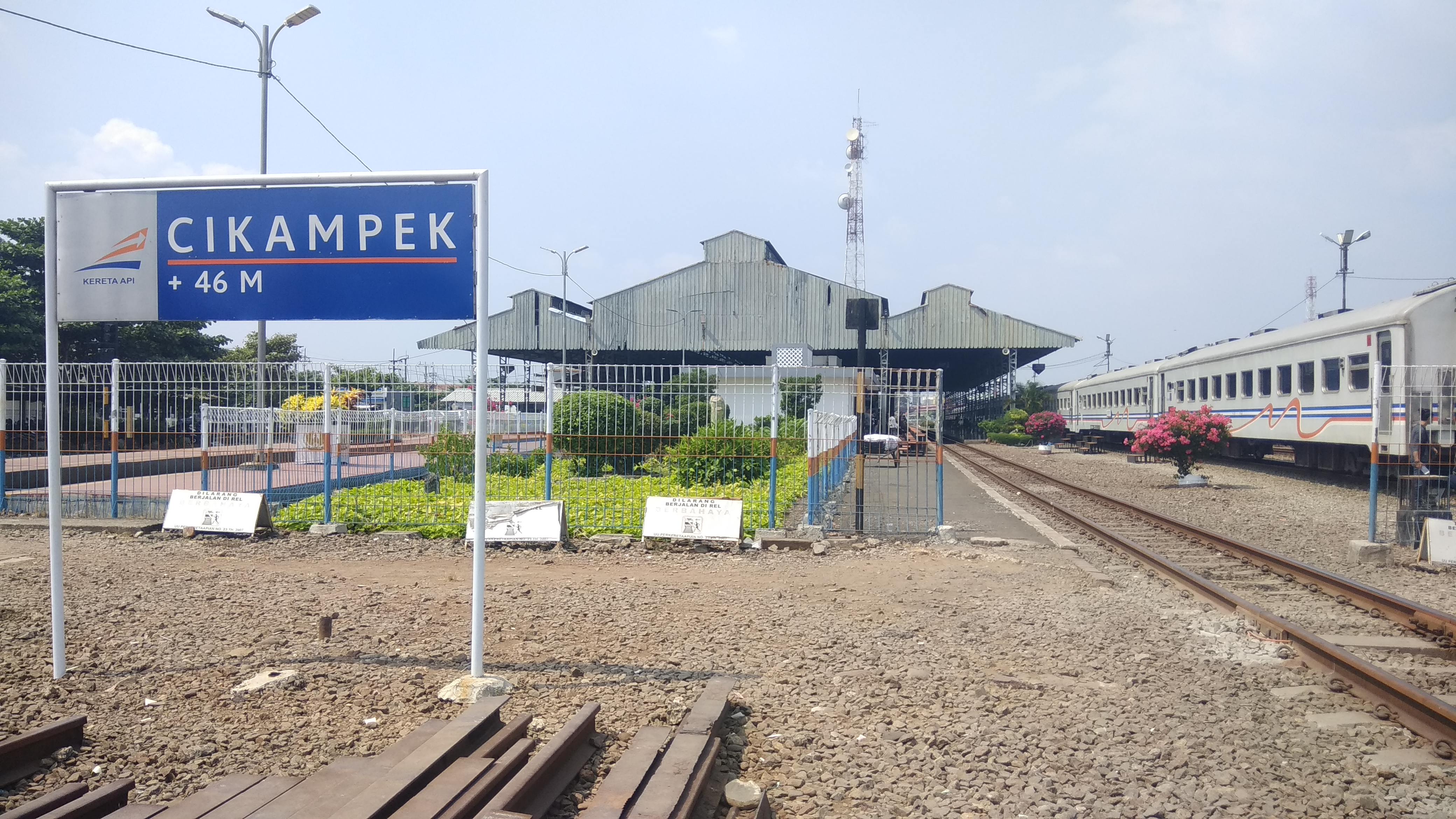 Cikampek train station in Indonesia